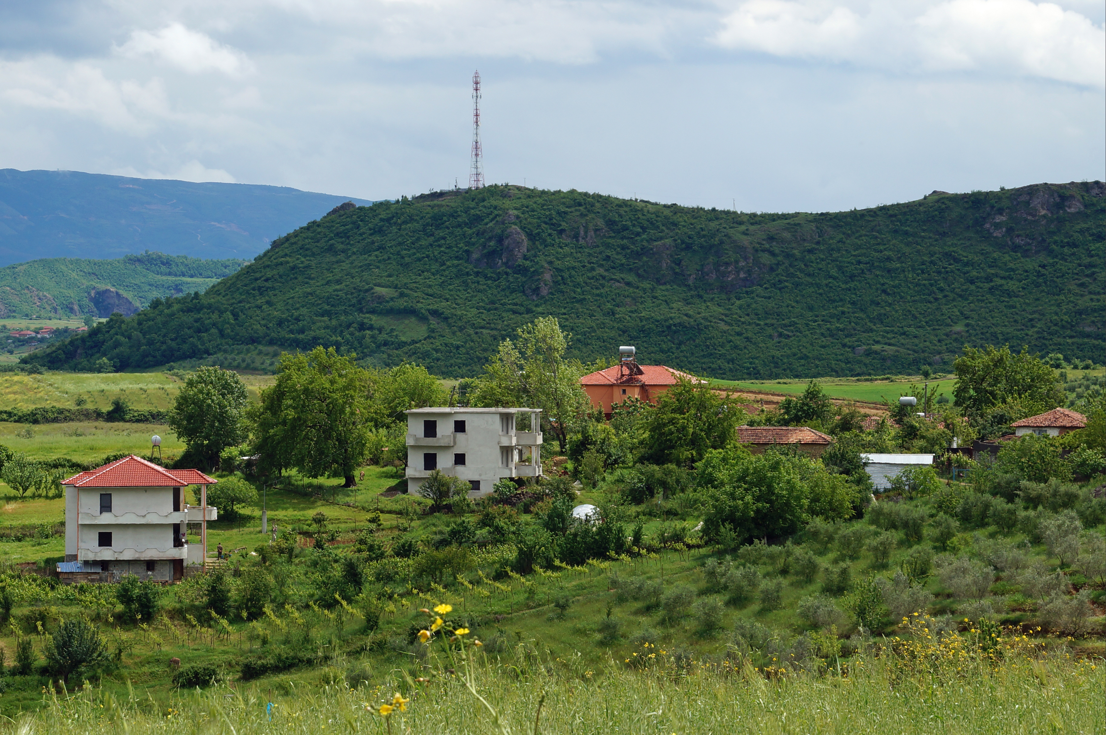 Gradishta mountain close to Belsh, Dumreja, Albania